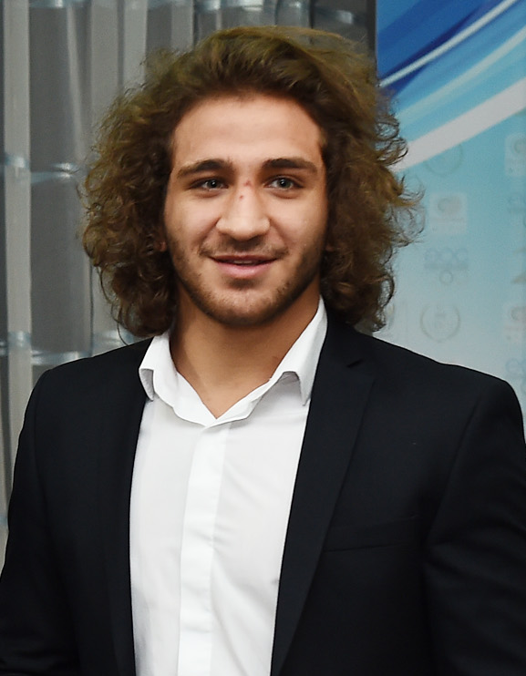 Ilham Aliyev attended ceremony dedicated to sport results of 2017